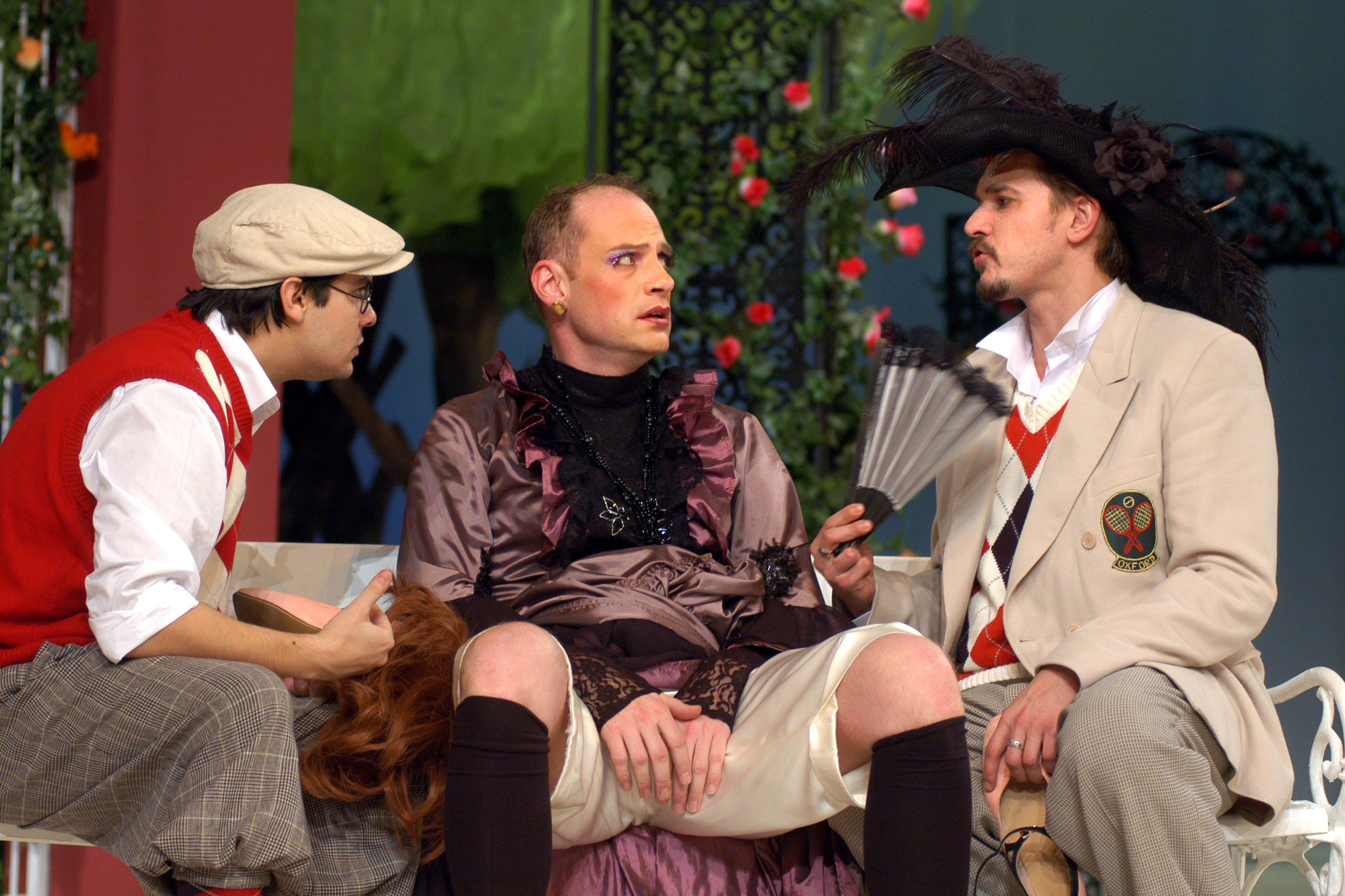 Charleyova teta (Production of Charley's Aunt in Czech) - from the left: Alan Novotný, Igor Ondříček, Petr Štěpán